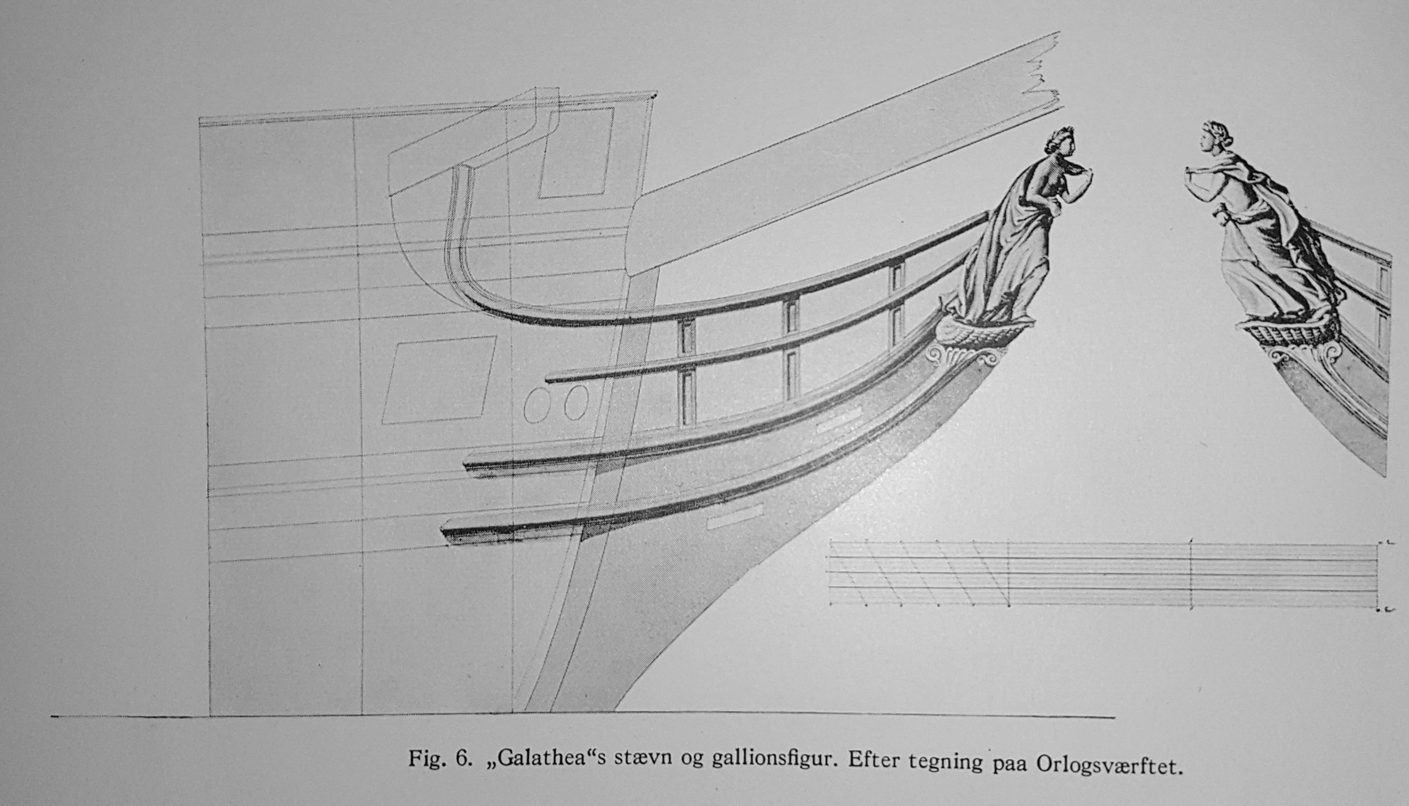 Drawing of the corvette HDMS Galathea. From Royal Navy Shipyard drawing.